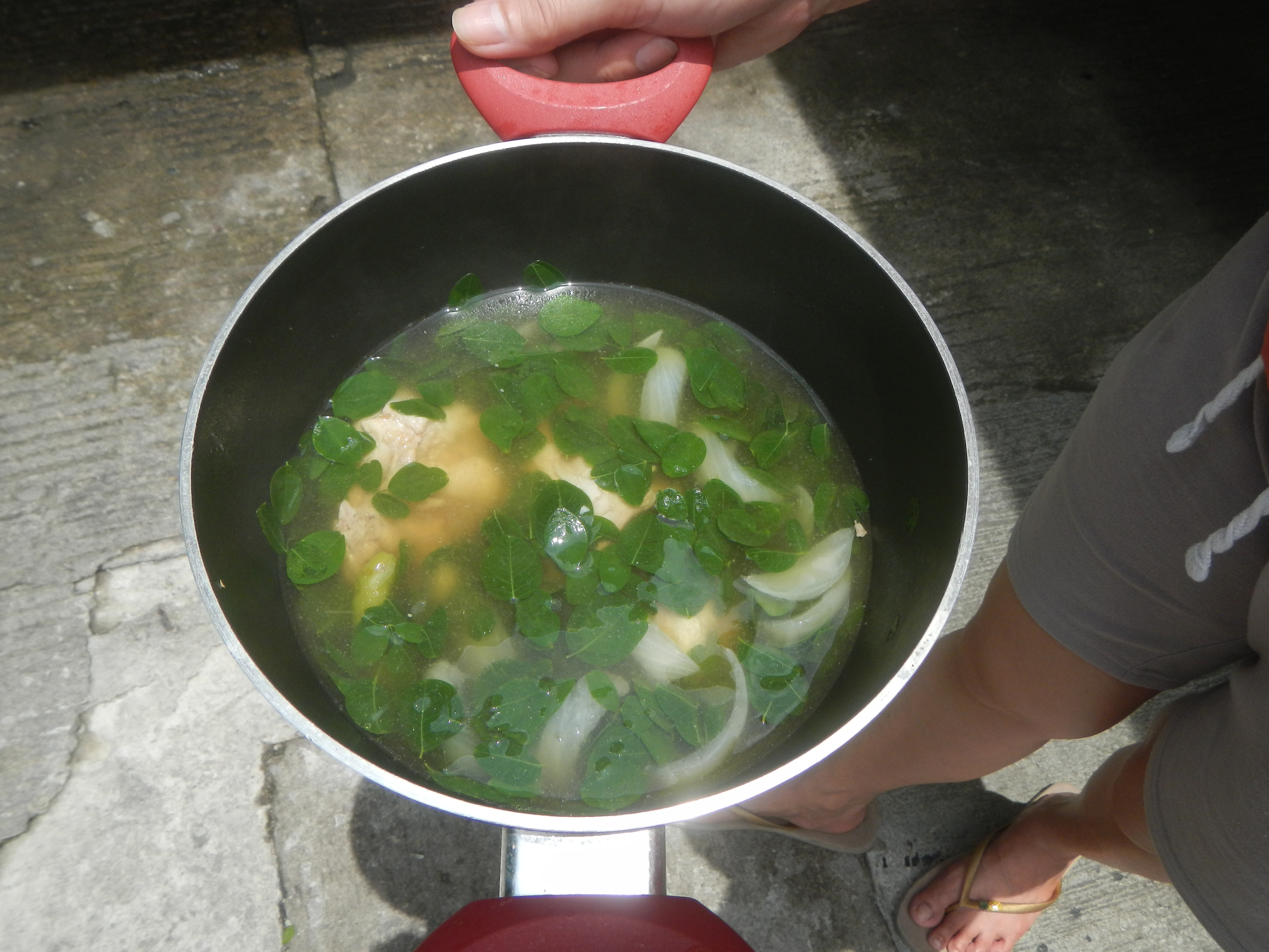 Photos taken during the 2020 coronavirus pandemic in Baliuag, Bulacan Timeline of the 2020 coronavirus pandemic in the Philippines 2020 coronavirus pandemic in the Philippines Bayanihan to Heal as One Act (RA 11469) Bayanihan Act of 2020. Signed on March 24, 2020 7,958 Covid-19 cases in Philippines April 28; 12,942 as of May 19, 2020 Enhanced community quarantine in Luzon Bayanihan to Heal as One Act Republic Act No. 11469 COVID-19 community quarantines in the Philippines Tiers of quarantine Enhanced community quarantine (ECQ) General community quarantine (GCQ) Category:Sitios and puroks of the Philippines Subdivisions of the Philippines Barangay Poblacion 14°57'17"N 120°54'2"E, Bagong Nayon and Pagala, Baliuag, Bulacan, Bulacan province (Note: Judge Florentino Floro, the owner, to repeat, Donor FlorentinoFloro of all these photos hereby donate gratuitously, freely and unconditionally Judge Floro all these photos to and for Wikimedia Commons, exclusively, for public use of the public domain, and again without any condition whatsoever).